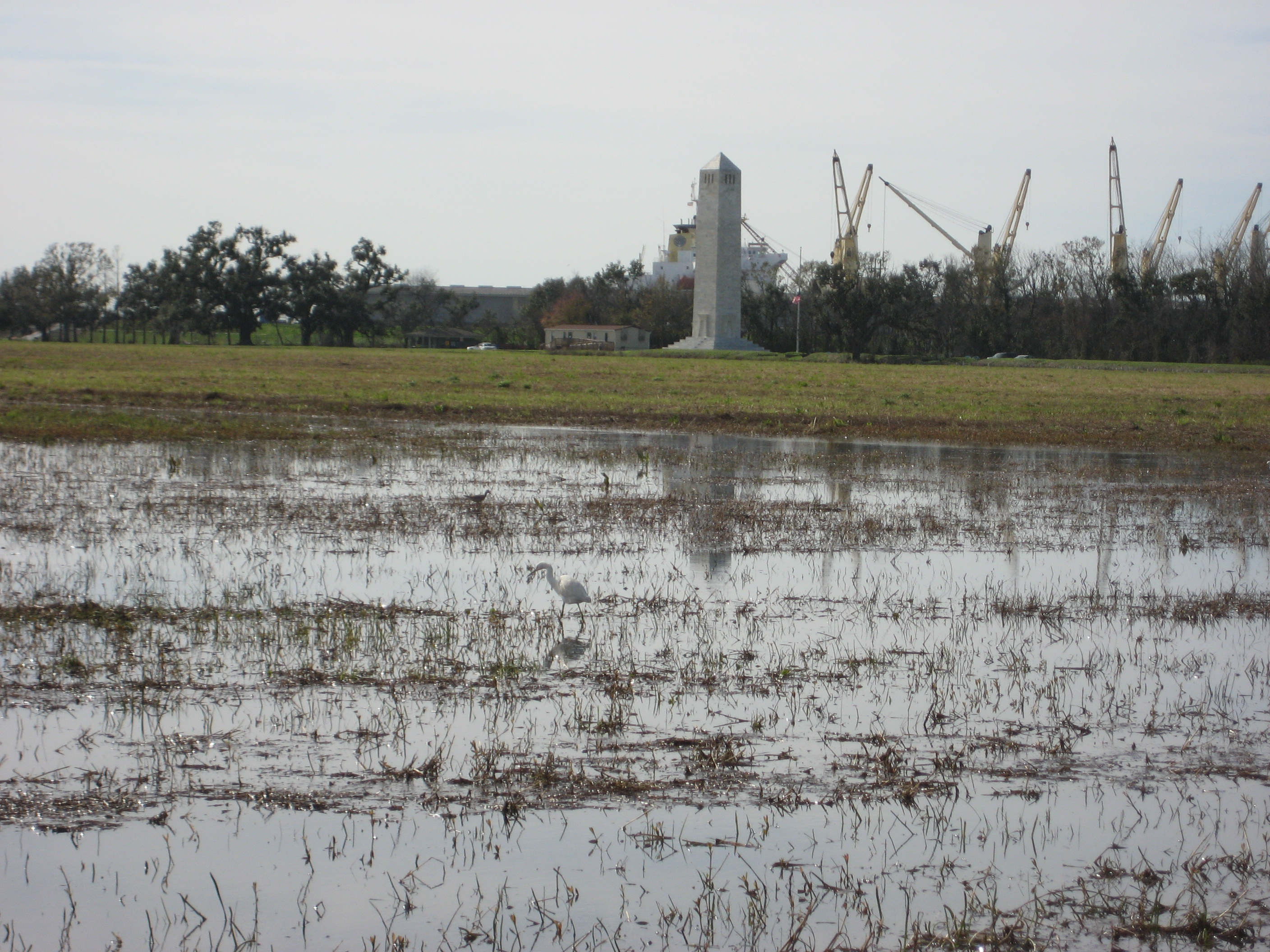 Chalmette Battlefield. View from UK lines marker across marsh to US lines and monument, port cranes on Mississippi River in distance.